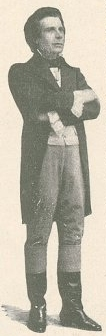 Italian tenor Giuseppe Russitano in the role of Simão Botelho, in the play Amor de Perdição (Love of Perdition), that debuted in the city of Lisbon, in Portugal, on the 2nd of March 1907.